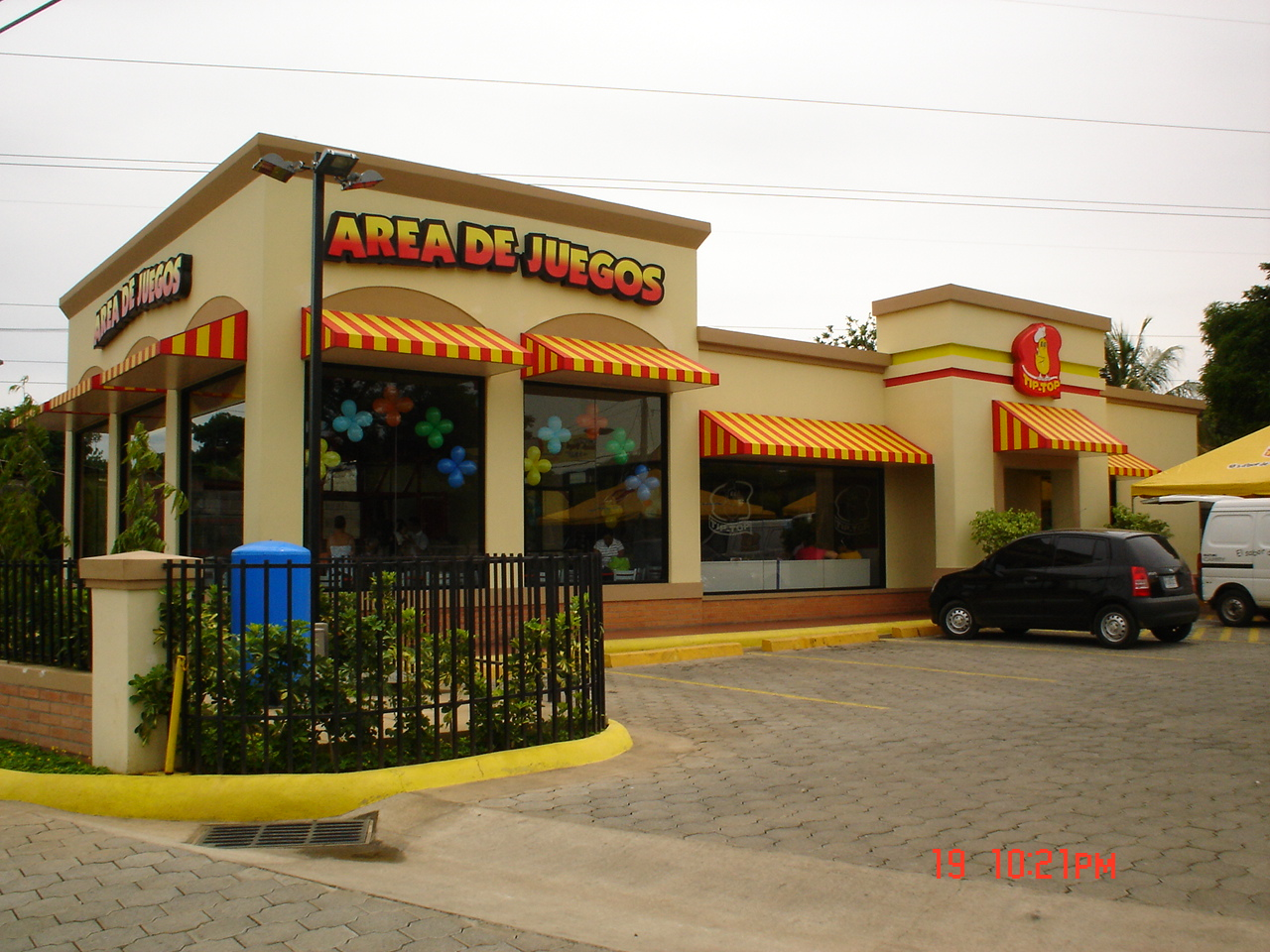 Restaurant in Ciudad Sandino